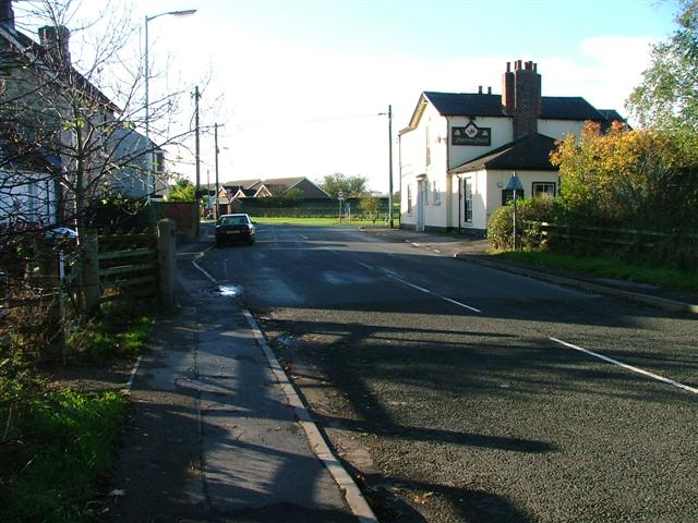 The Fighting Cocks. The Fighting Cocks (building on the right) was used as a booking office when the Darlington and Stockton Railway opened for passengers in 1825. The railway crossed the road immediately in front of the camera. The track way is now used as a footpath/cycleway.